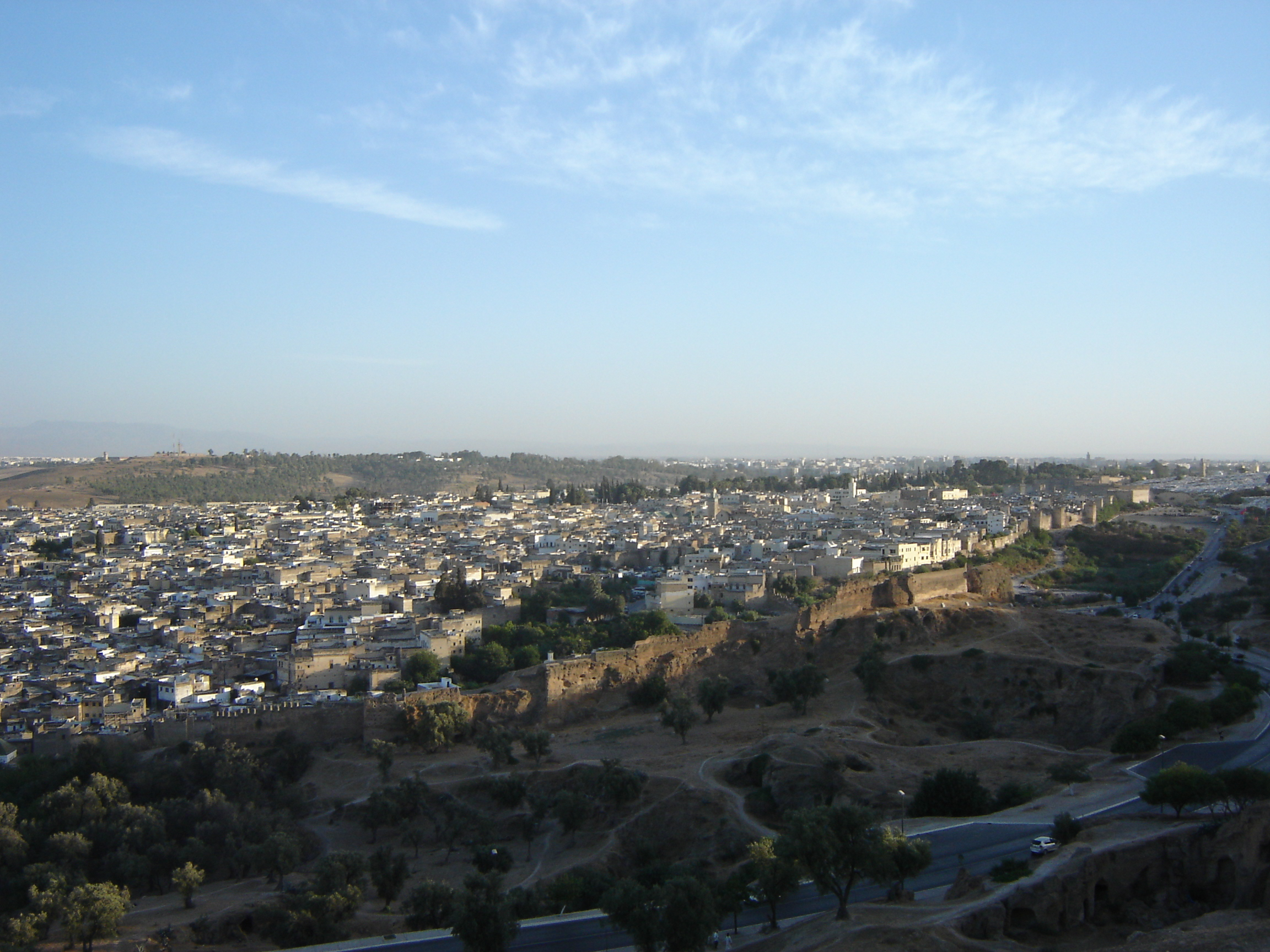 Fes old city